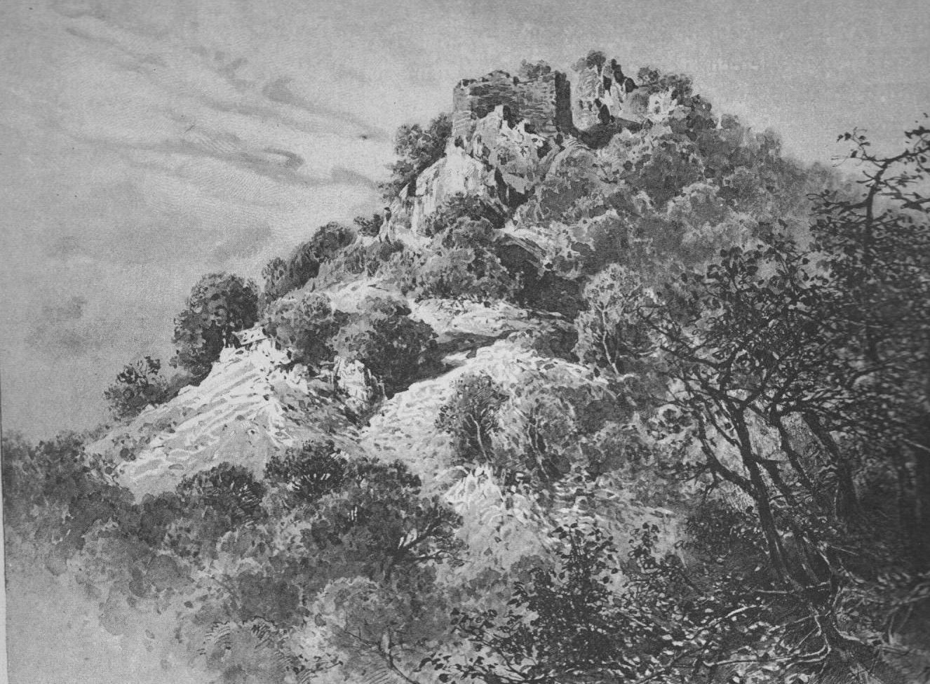 Ostrý Castle in Czech Republic in 1892